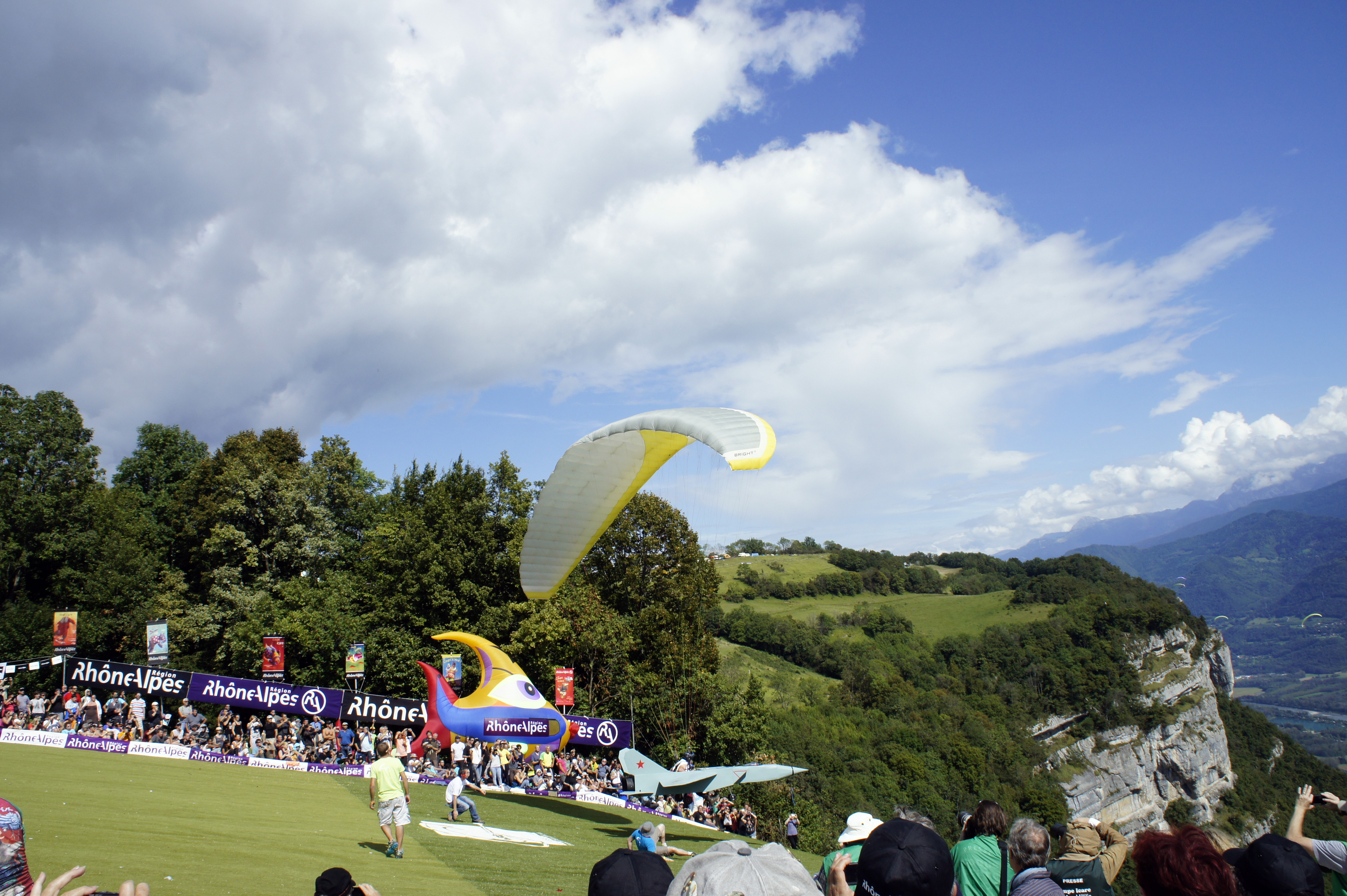 The Coupe Icare festival in september 2014